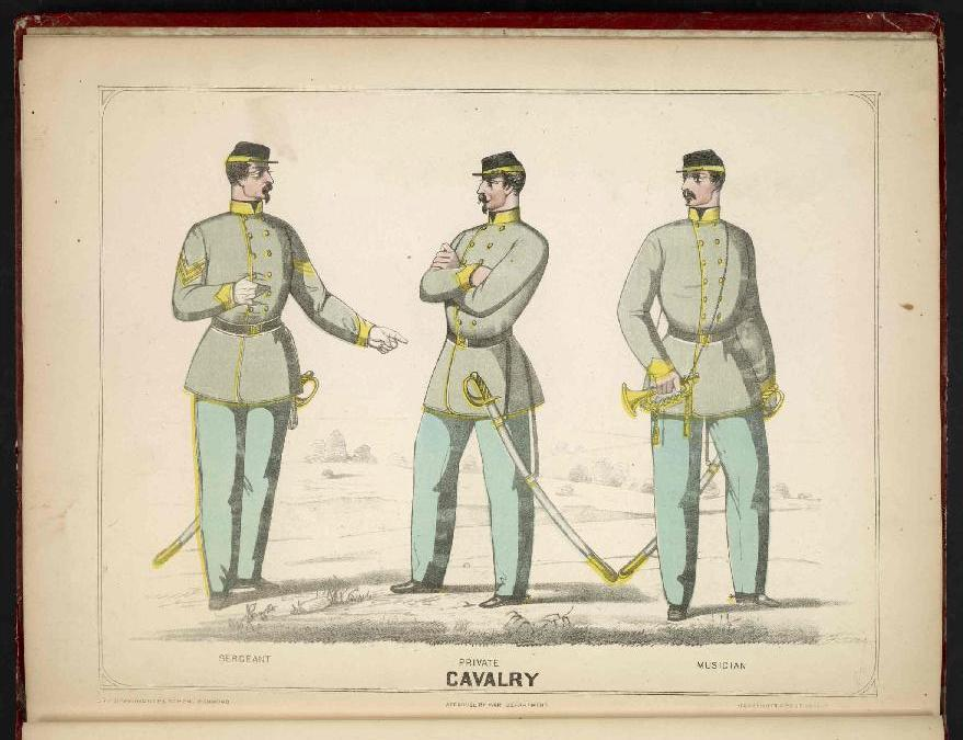 Cavalry